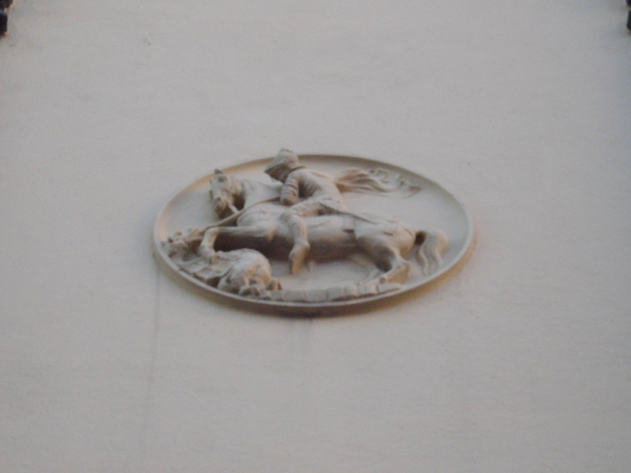 St. George. Relief on the Pociej palace in Vilnius. Dominikonų g. 11